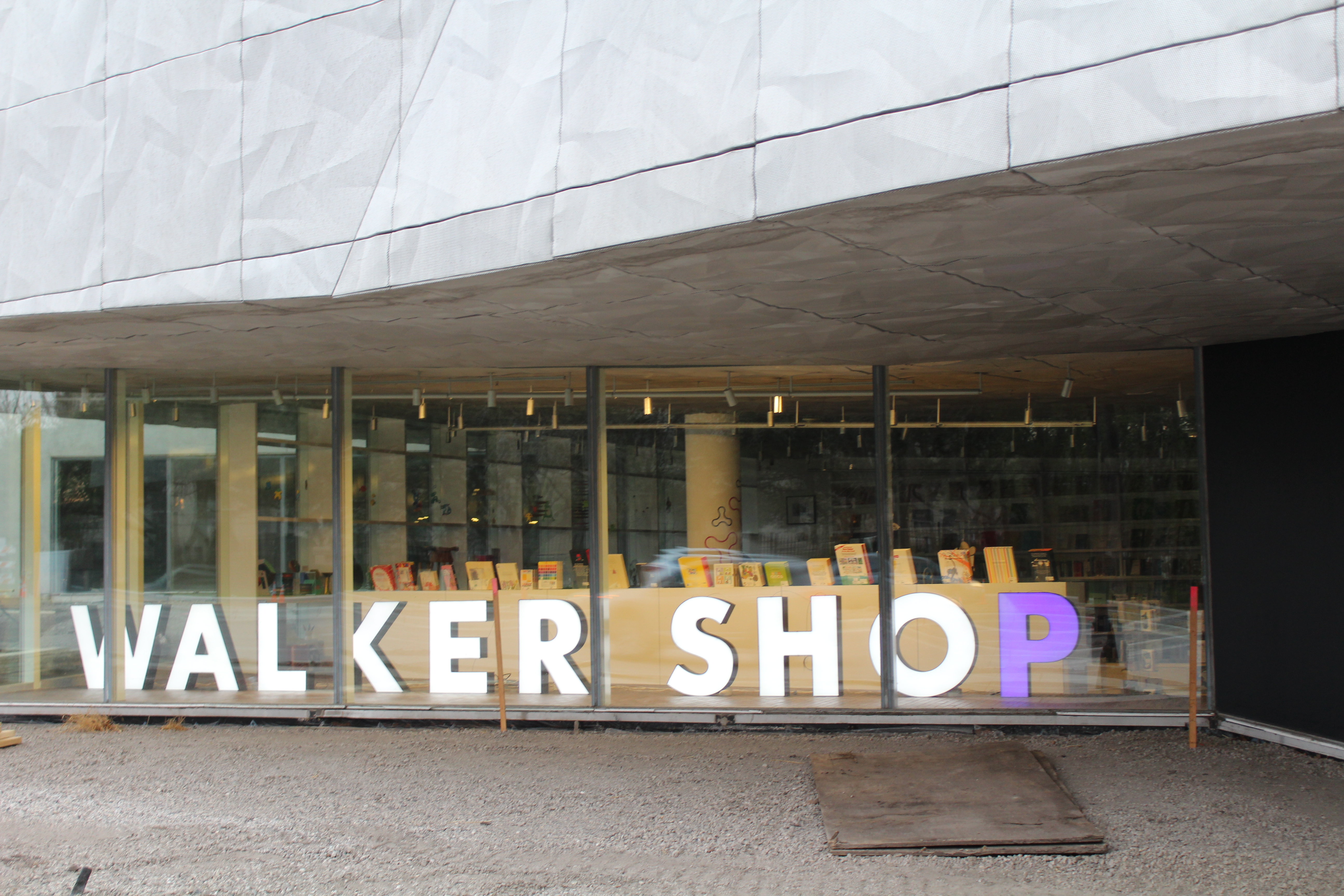 Purple P in memory of Prince on the first anniversary of his death, Walker Art Center, Minneapolis